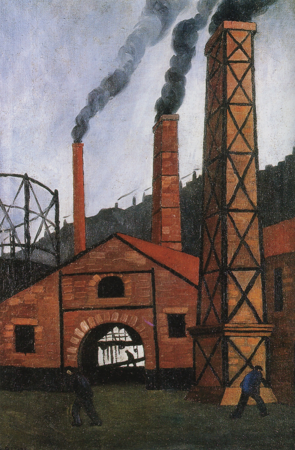 Factory